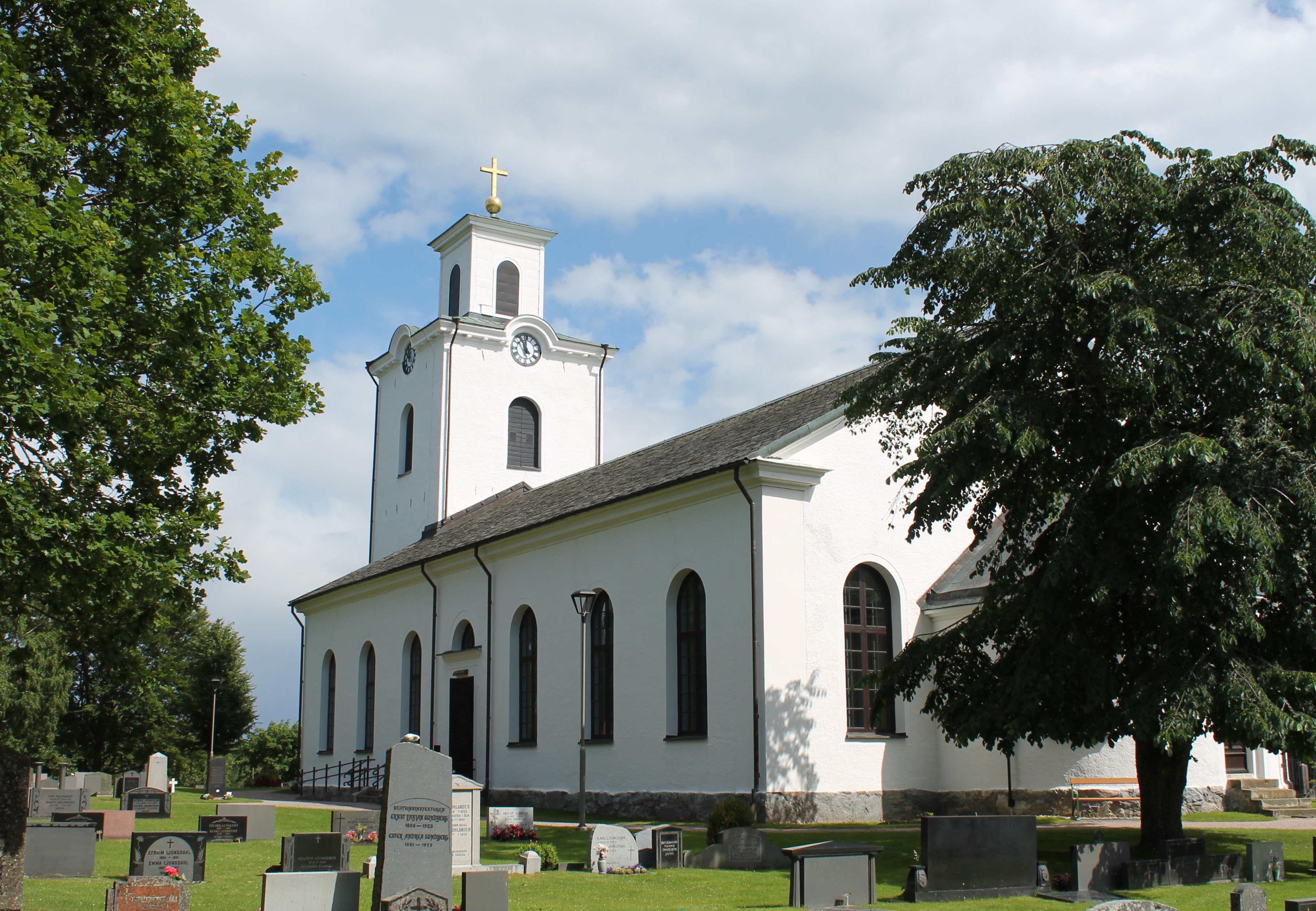 Öja Church.Exterior.The church was built in 1852-54 in neoclassical style, designed by Johan Carlberg at Överindentensämbetert. The inauguration took place in 1855 and förättades by Bishop Christopher Isac Heurlin.